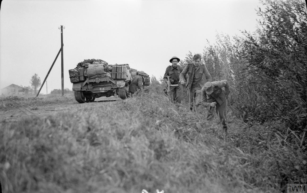 The British Army in North-west Europe 1944-45 German prisoners are brought in along a ditch past universal carriers of 6th Royal Welsh Fusiliers during fighting between Hertogenbosch and the Maas river, 1 November 1944.